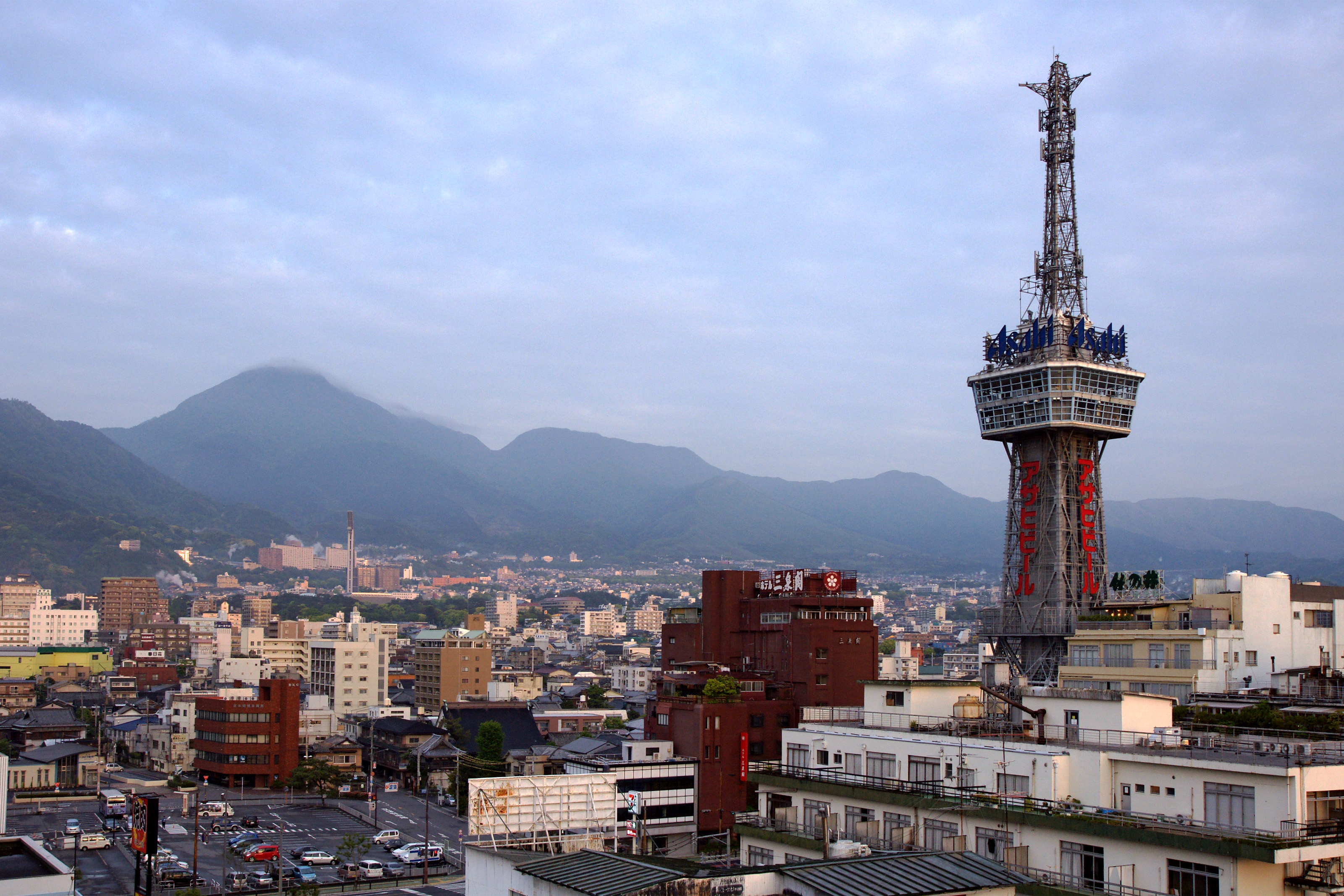 Beppu Tower in Beppu Onsen, Beppu, Oita prefecture, Japan